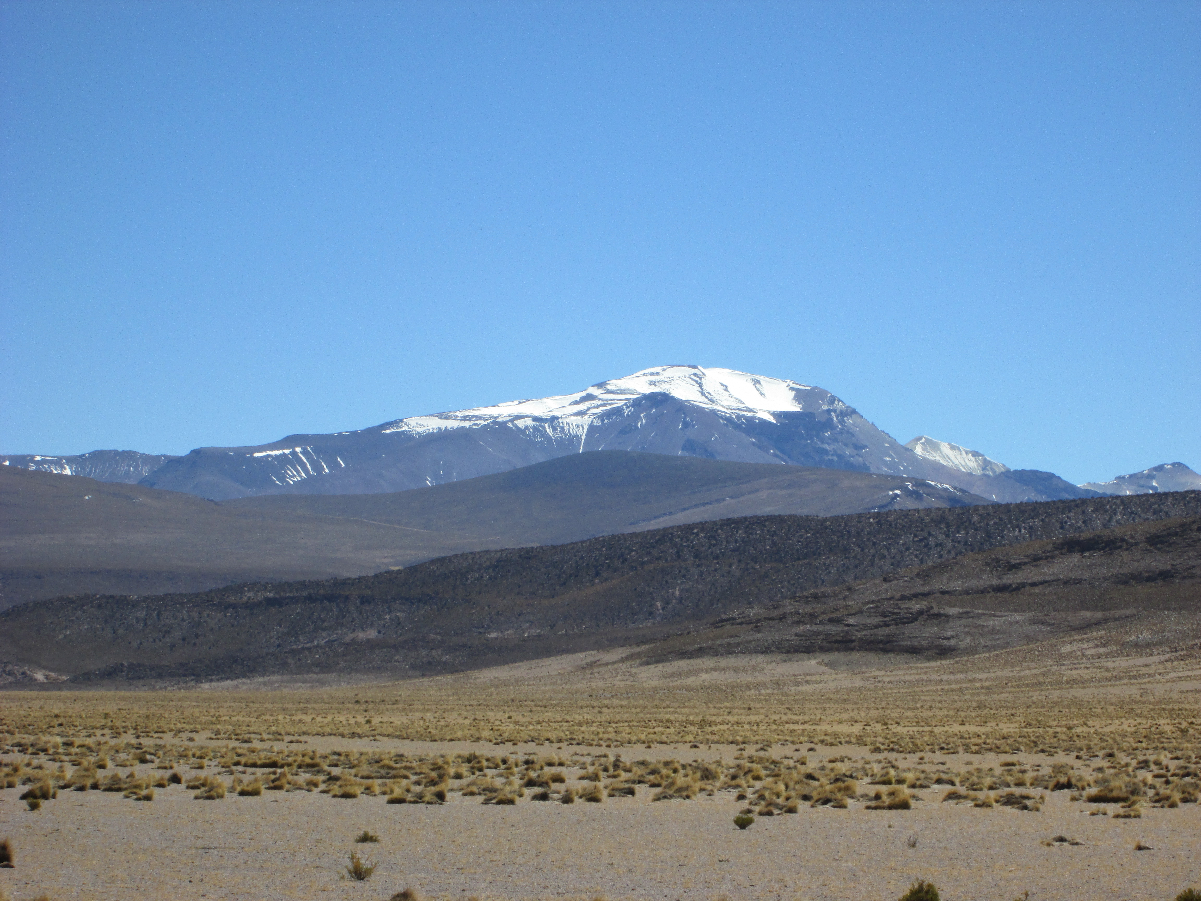 A view of the mountain Alto Toroni, also knwon as Cerro Sillajguay, from the west.